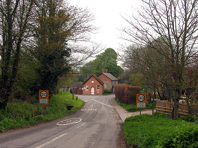 Approach to West Ilsley in Berkshire, England. This attractive village is a little gem in the area. This end of the village is situated in the south eastern section of the grid square, taken from the road looking north east.